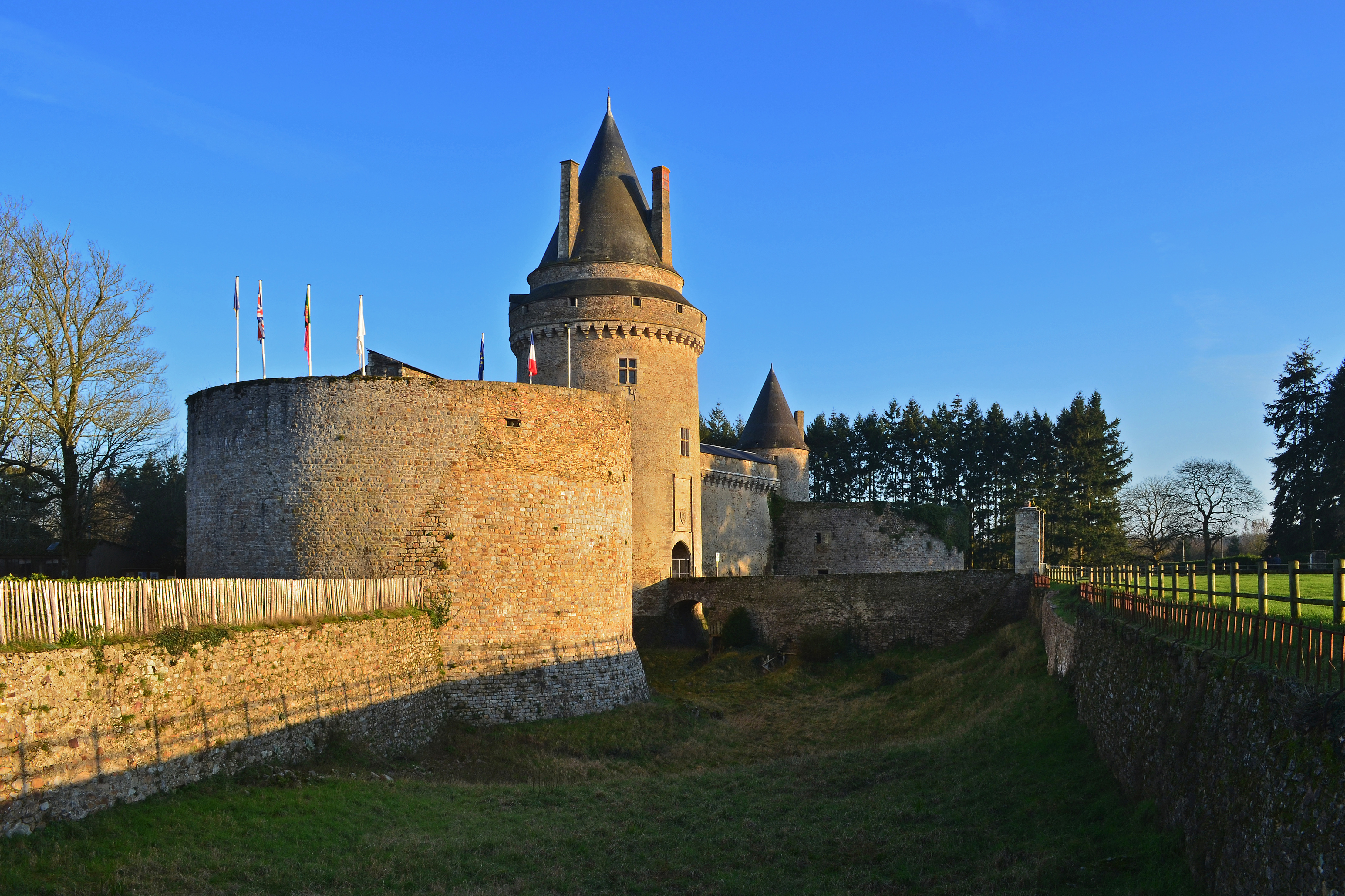 Fortified towers of the castle of Blain at dawn- France